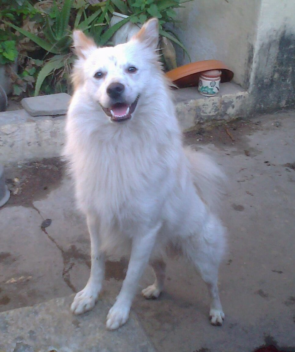 Indian spitz male adult